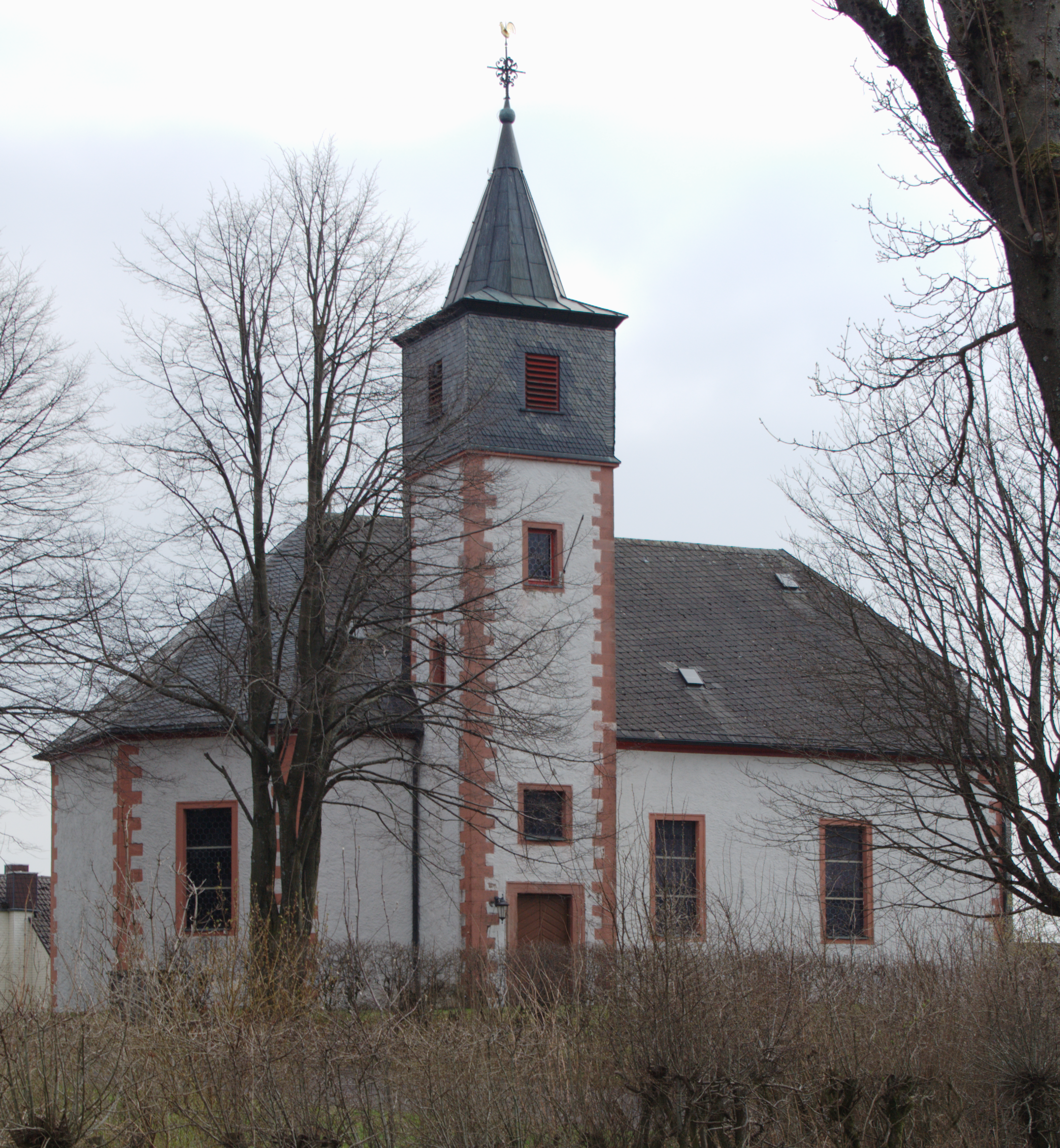 Protestant church in Herchenhain, Grebenhain, Hesse, Germany